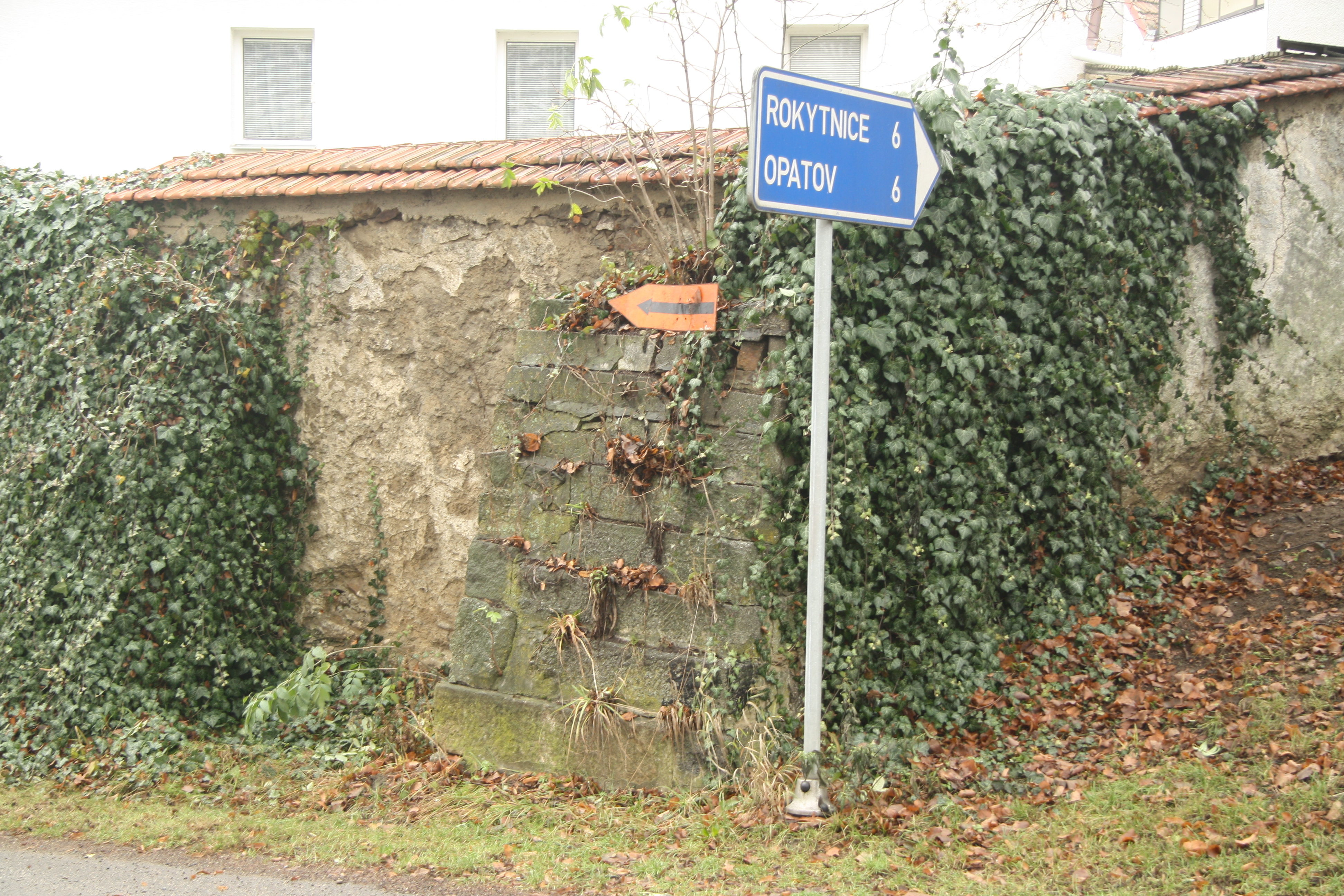 Former castle in Heraltice, Třebíč District.